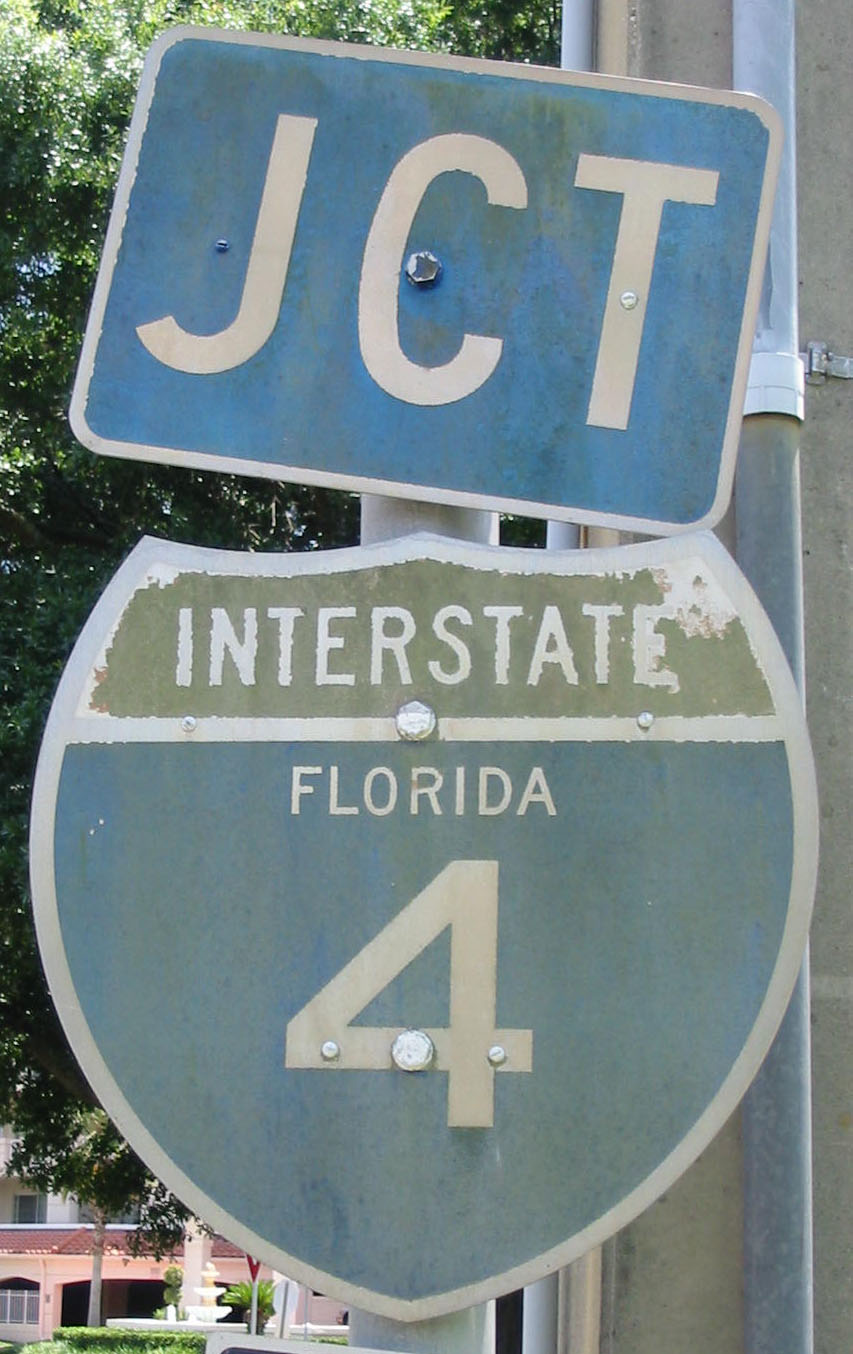 Old Florida Interstate 4 shield in downtown Orlando. Taken May 24, 2003 by User:SPUI. See Image:Florida I-4.jpg for a closeup.